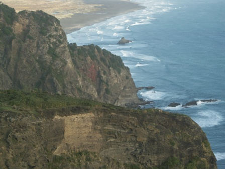 Karekare - photo taken and uploaded by Paul Moss, Photographer, Artist, Paul Moss Photographer Artist NZ